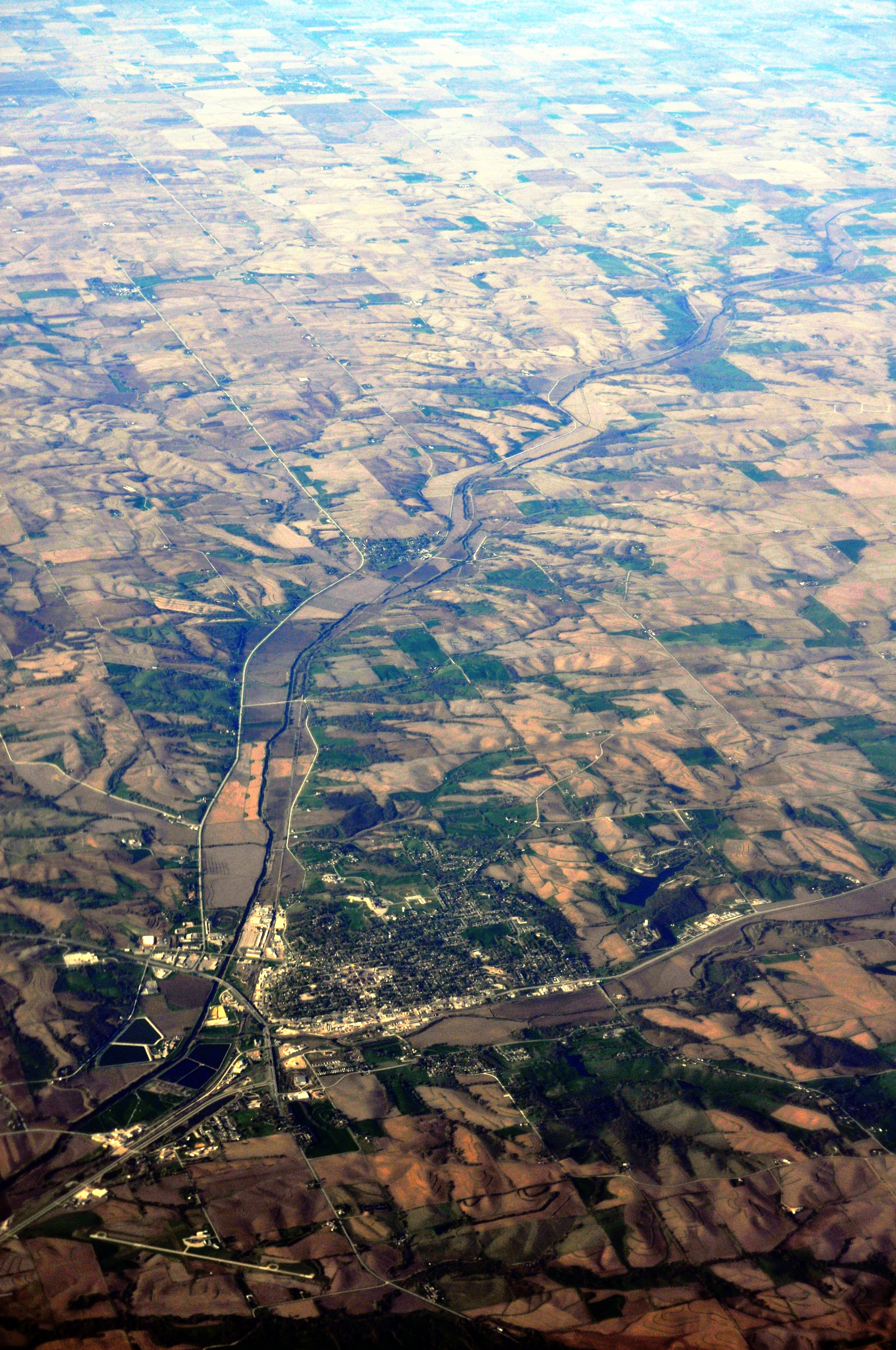 Aerial photo of Denison, Iowa, USA.